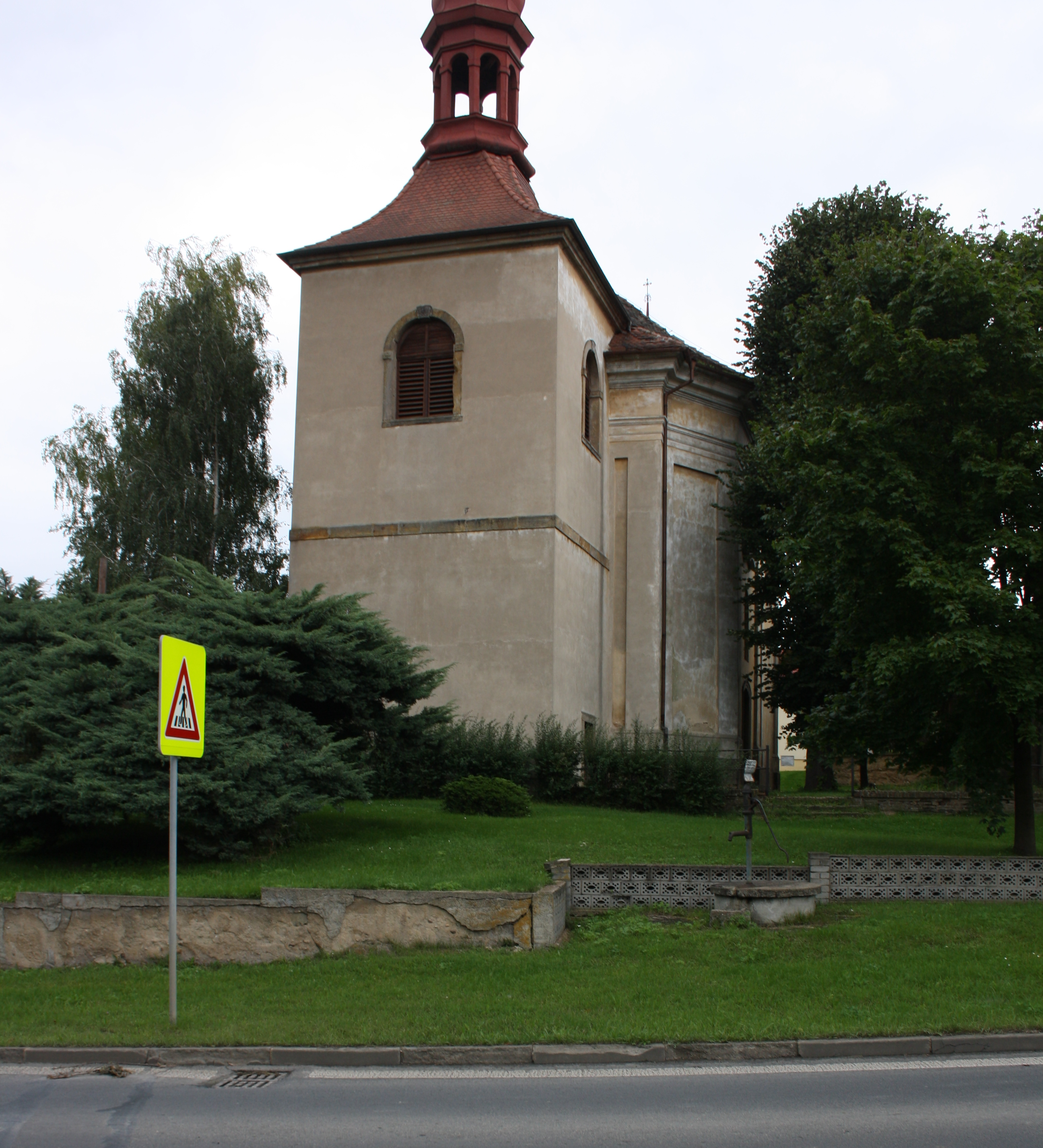 St. Martin church in Velemín municipality, Litoměřice District, Czech Republic.